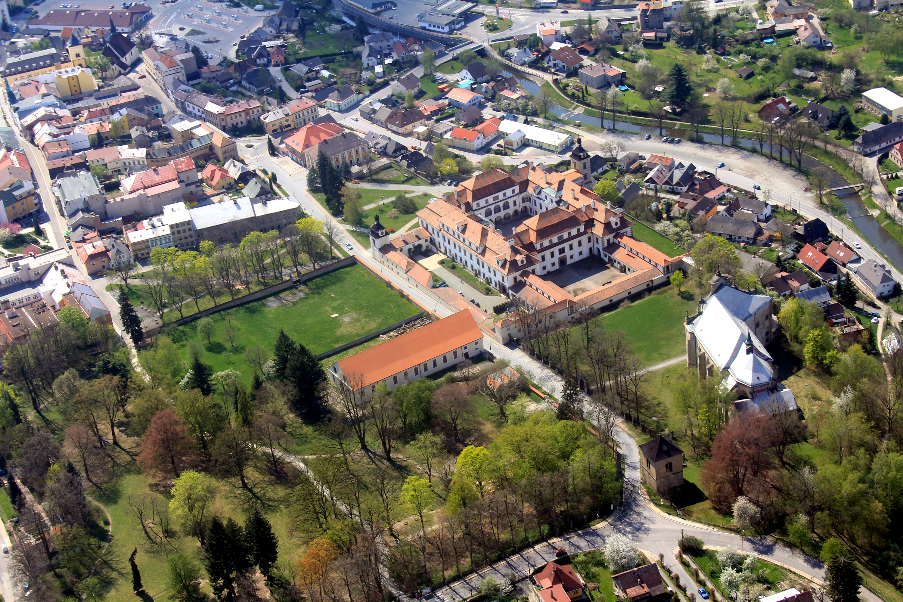 Town Rychnov nad Kněžnou from air, eastern Bohemia, Czech Republic